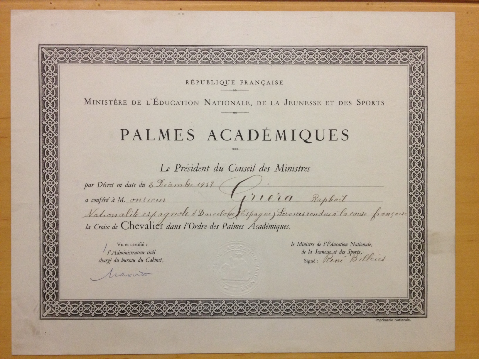 Croix de Chevalier des Palmes Académiques de la République Française to Mr. Rafael Griera for services to France during WWII, saving from the SS many Jew refugees in Spain.